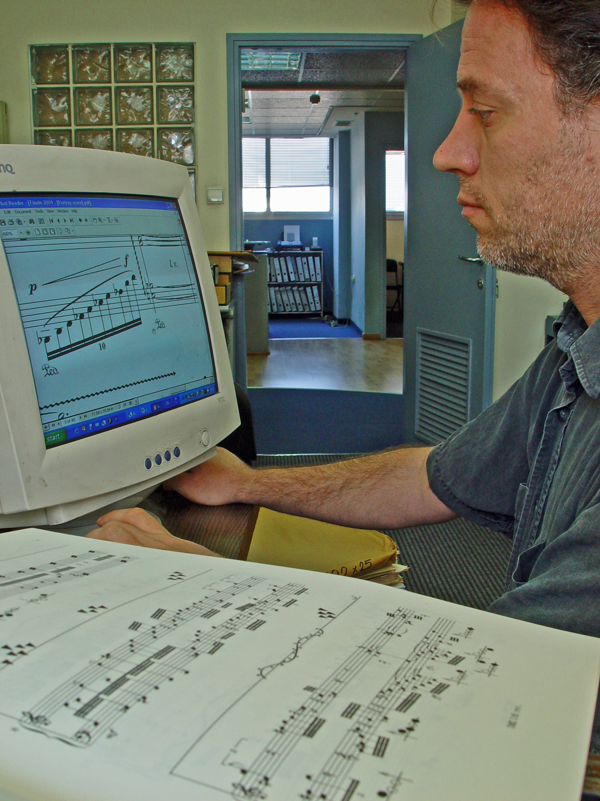 Music Editing at the Israel Music Institute, Tel Aviv